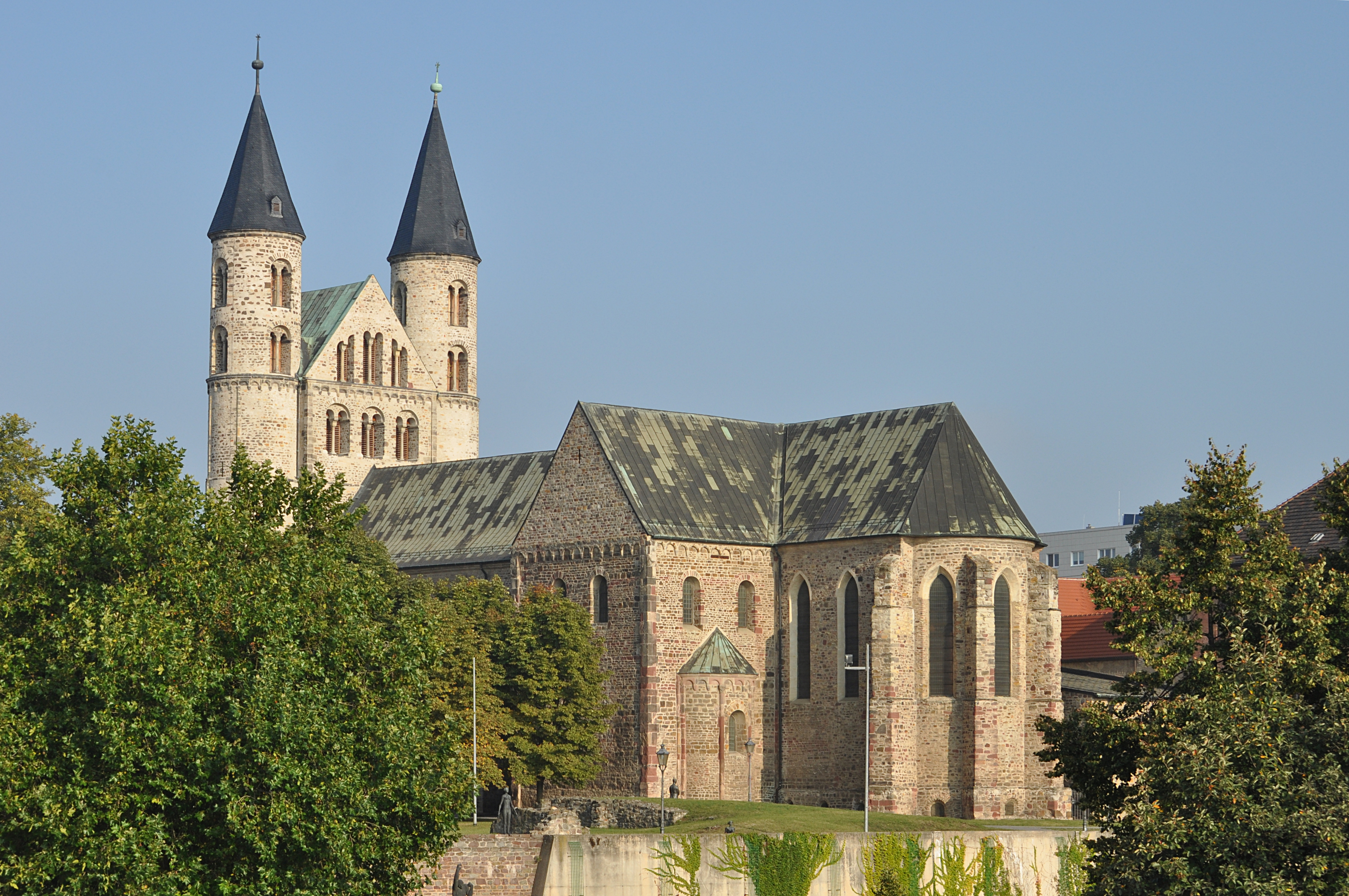 St. Mary's church in Magdeburg.